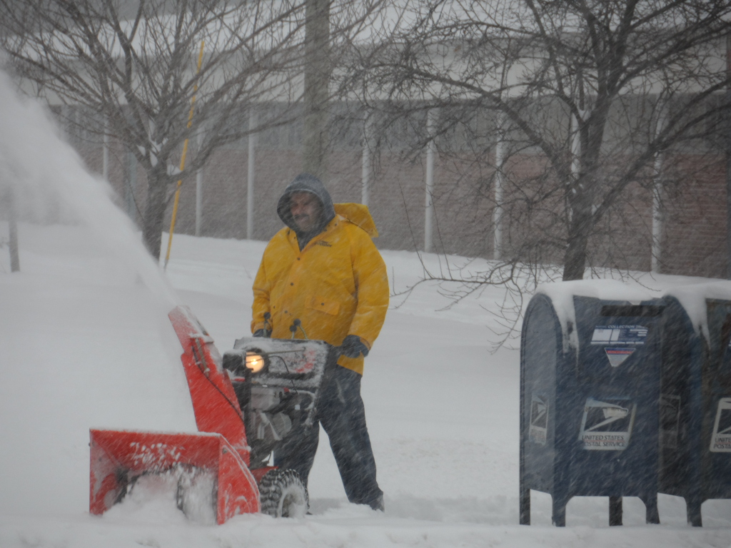 A man clearing snow with a snowblower in Nashua, New Hampshire